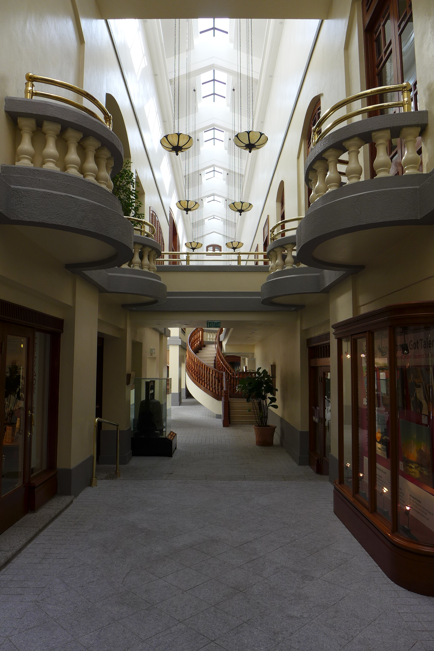 The Repulse Bay Shopping Arcade Void